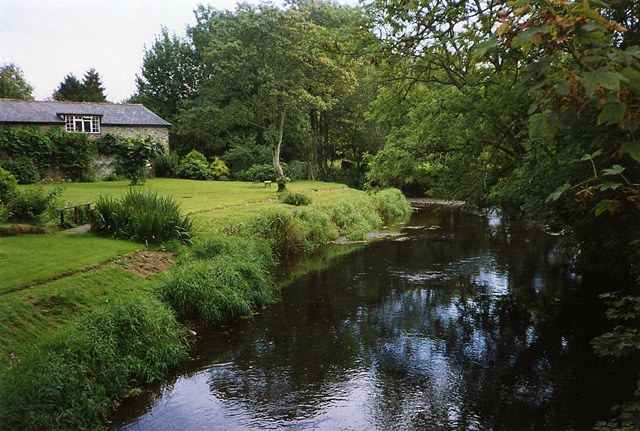 Mariansleigh: River Mole at Alswear. Three parishes meet here: beyond the bend the river runs into King’s Nympton and the right bank is in Queen’s Nympton